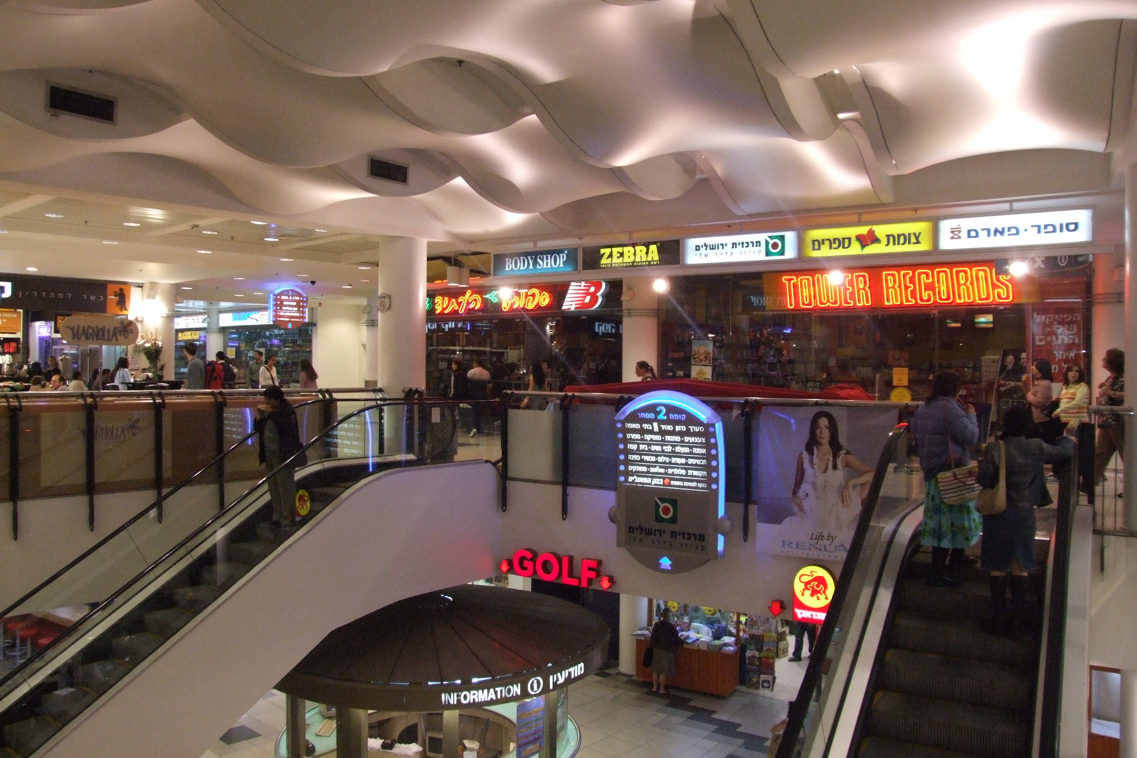 (centeral bus station, jerusalem, israel.)